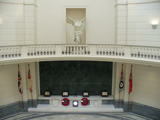 Aberdeen War Memorial The memorial is within Cowdray Hall and is entered through the Art Gallery. The architects were A. Marshall Mackenzie and Son (1923-25).